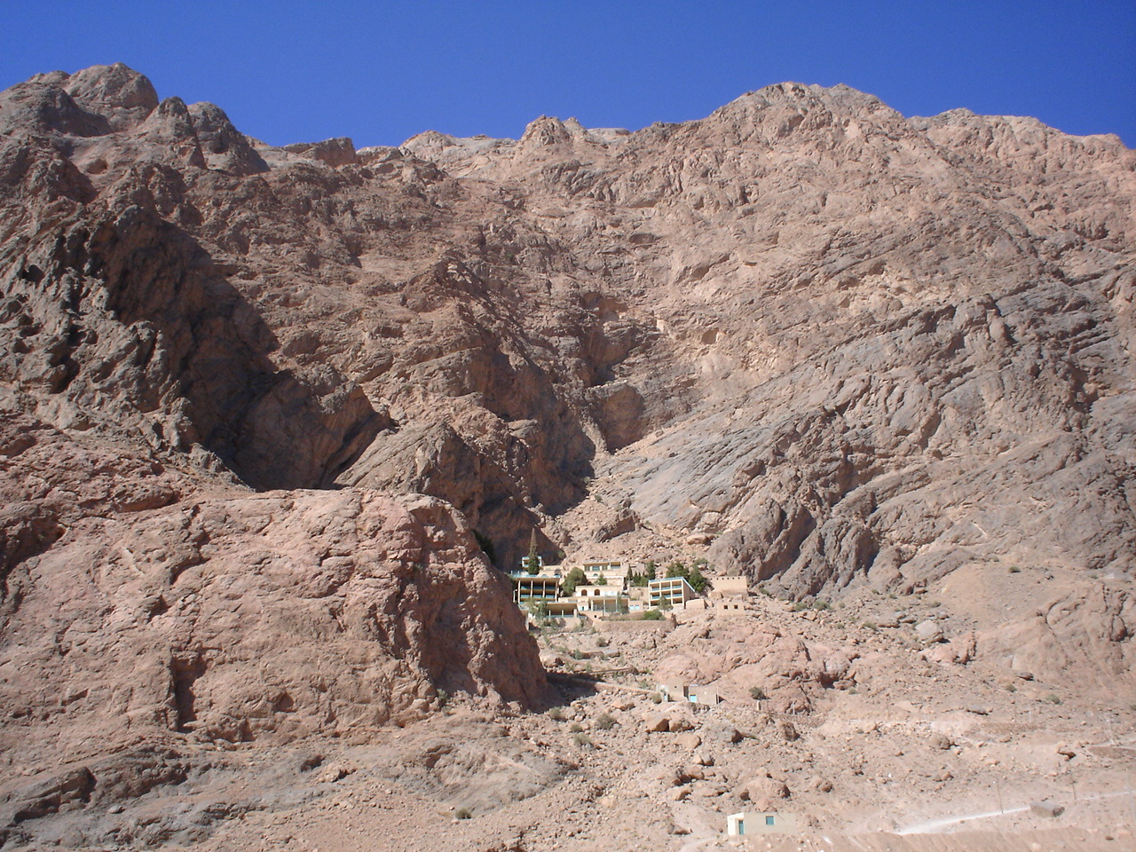 Zoroastrian shrine of Chak Chak